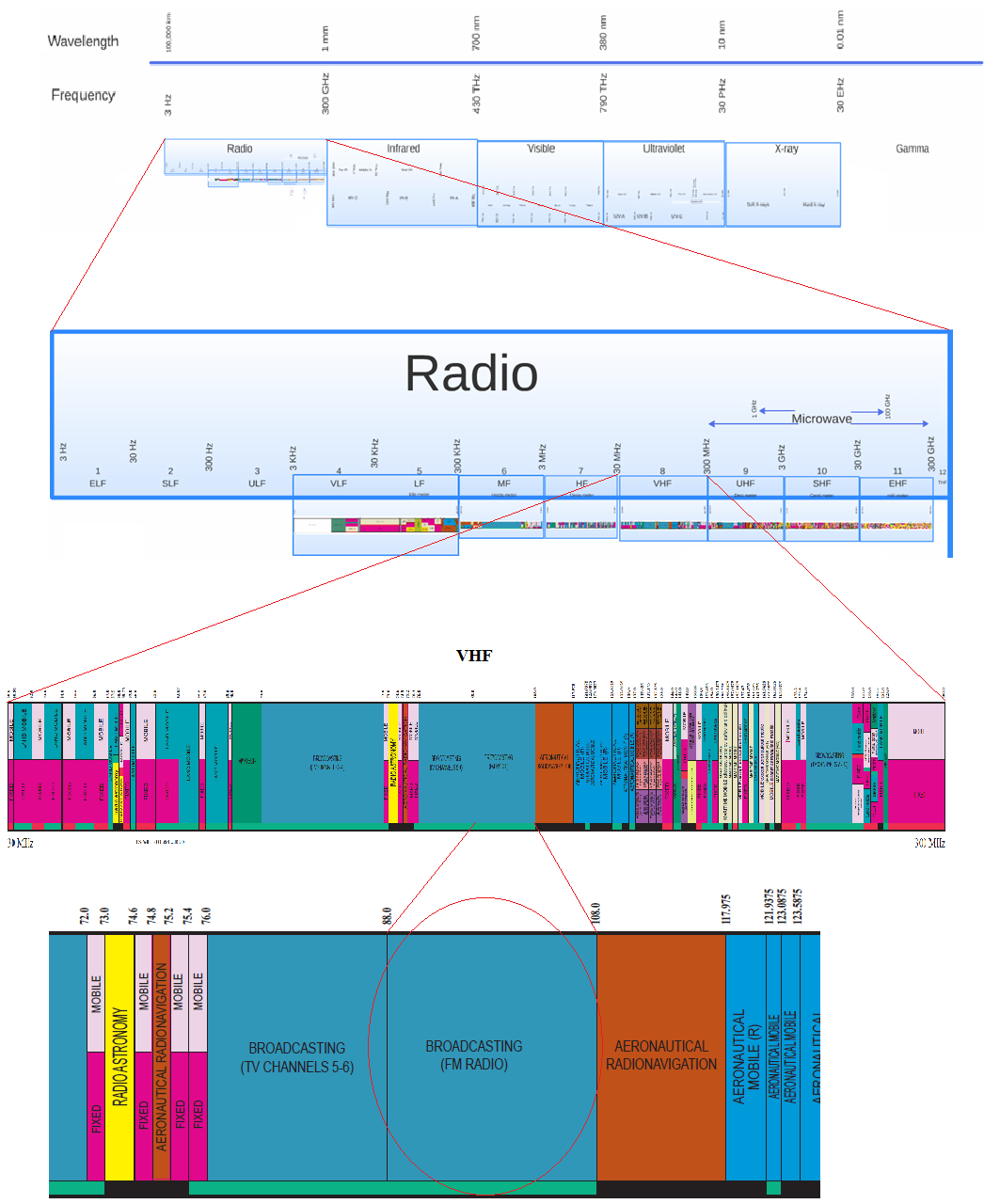 FM Radio Broadcasting : Big Picture in Full Electromagnetic Spectrum